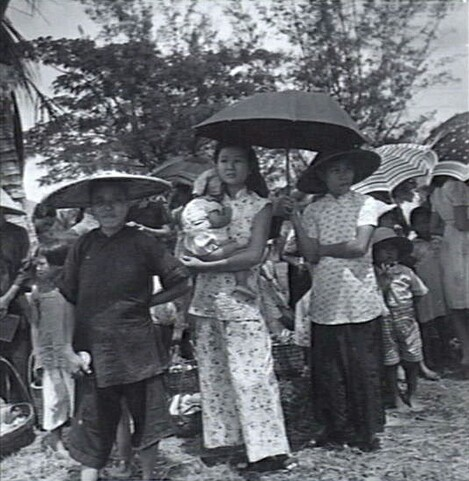 A CHILDREN'S CARNIVAL AT KUALA BELAIT ORGANISED BY THE 20TH AUSTRALIAN INFANTRY BRIGADE. A GROUP OF CHINESE SPECTATORS AT THE CARNIVAL (IMAGE LOCATION: KUALA BELAIT, BRITISH BORNEO)